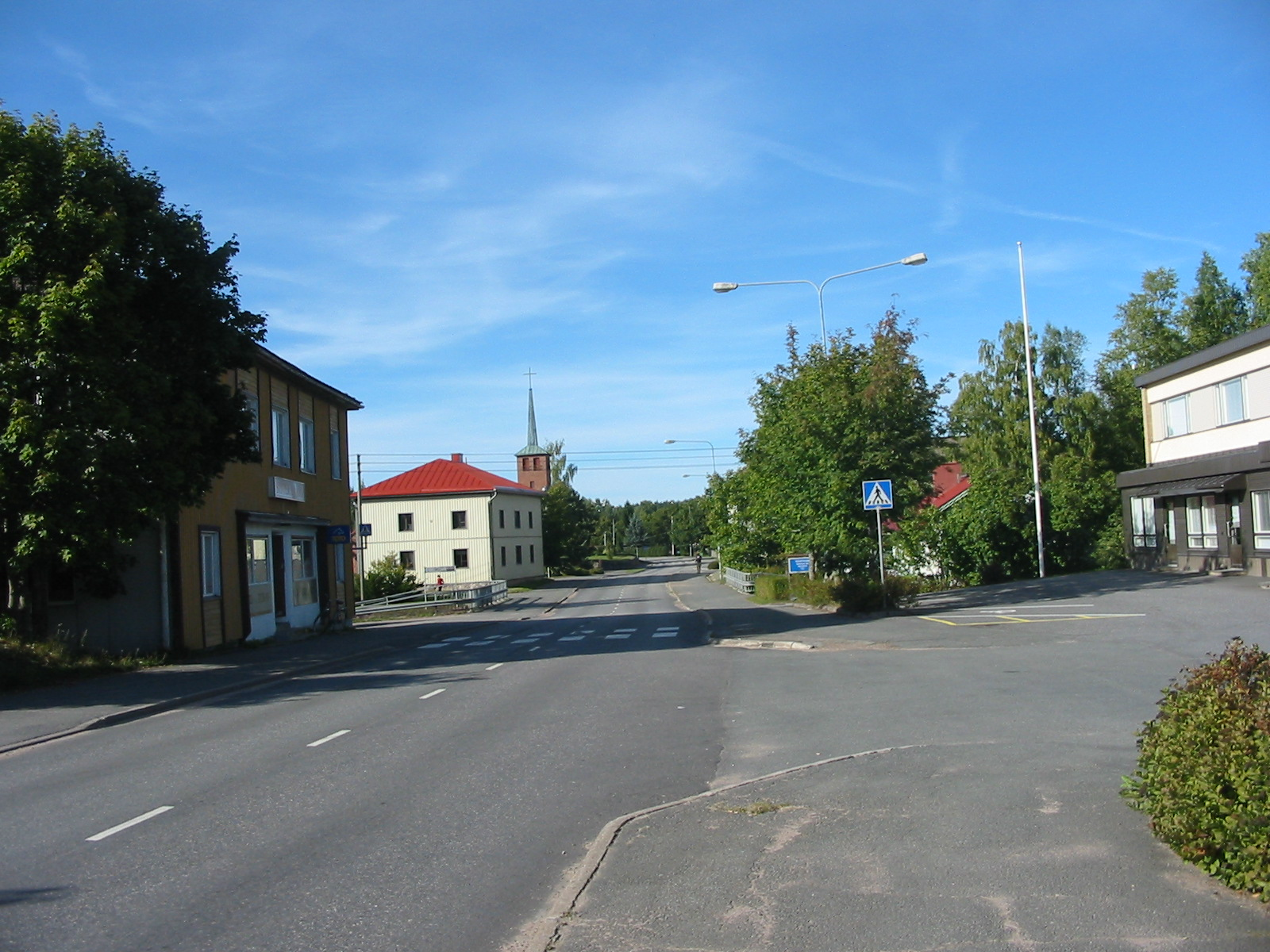 The main street of Panelia, Kiukainen, Eura, Finland.